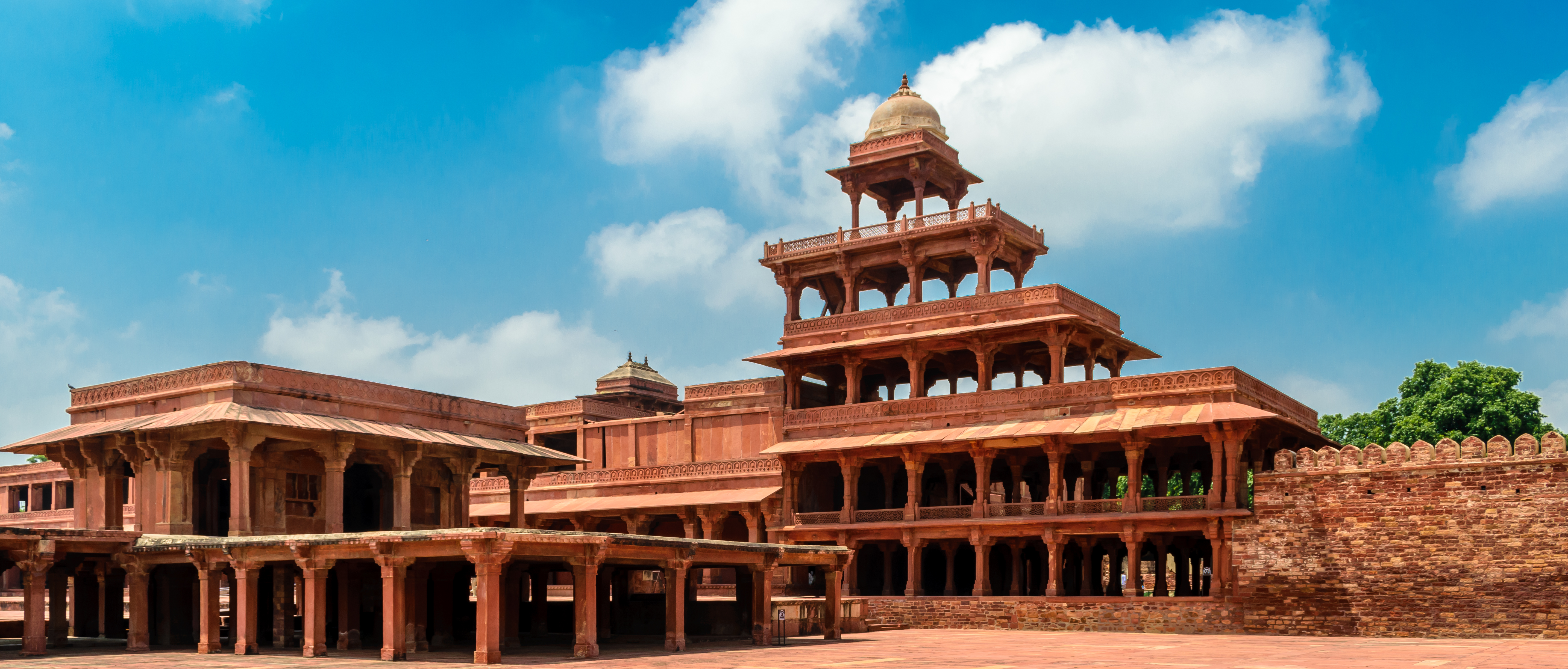 Fatehpur Sikri: Panch Mahal